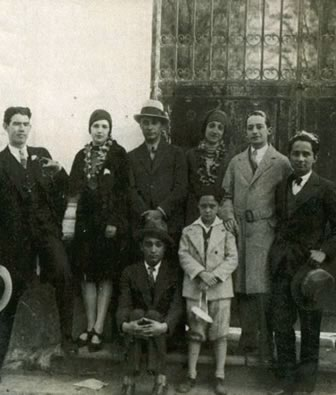 Miembros del teatro Ulises.